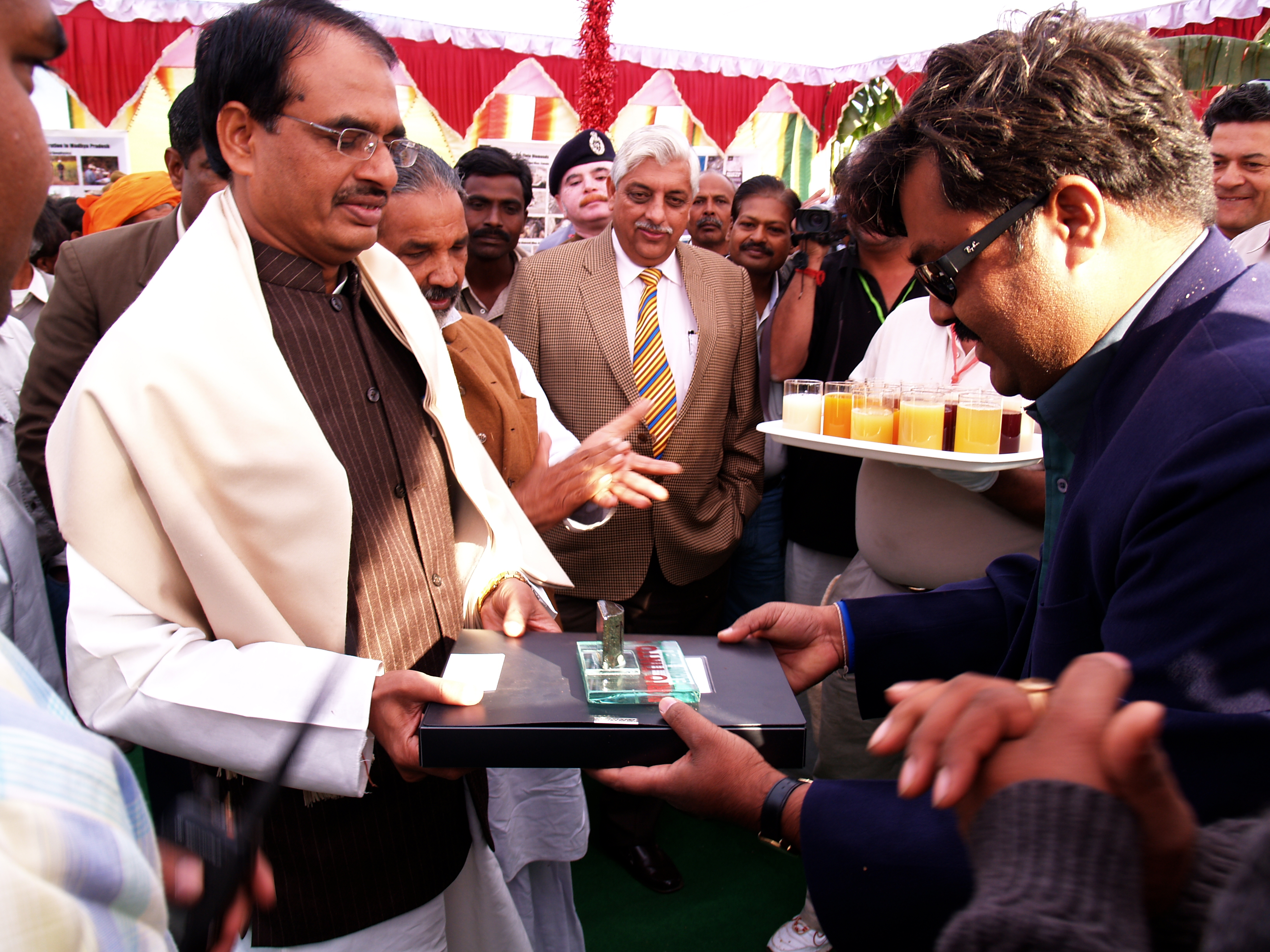 Chief Minister of Madhya Pradesh, Mr. Shivraj Singh Chouhan, visits the proposed Bunder Project diamond mine. He adds a ceremonial foundation stone for the proposed Dense Media Separation (DMS) plant.